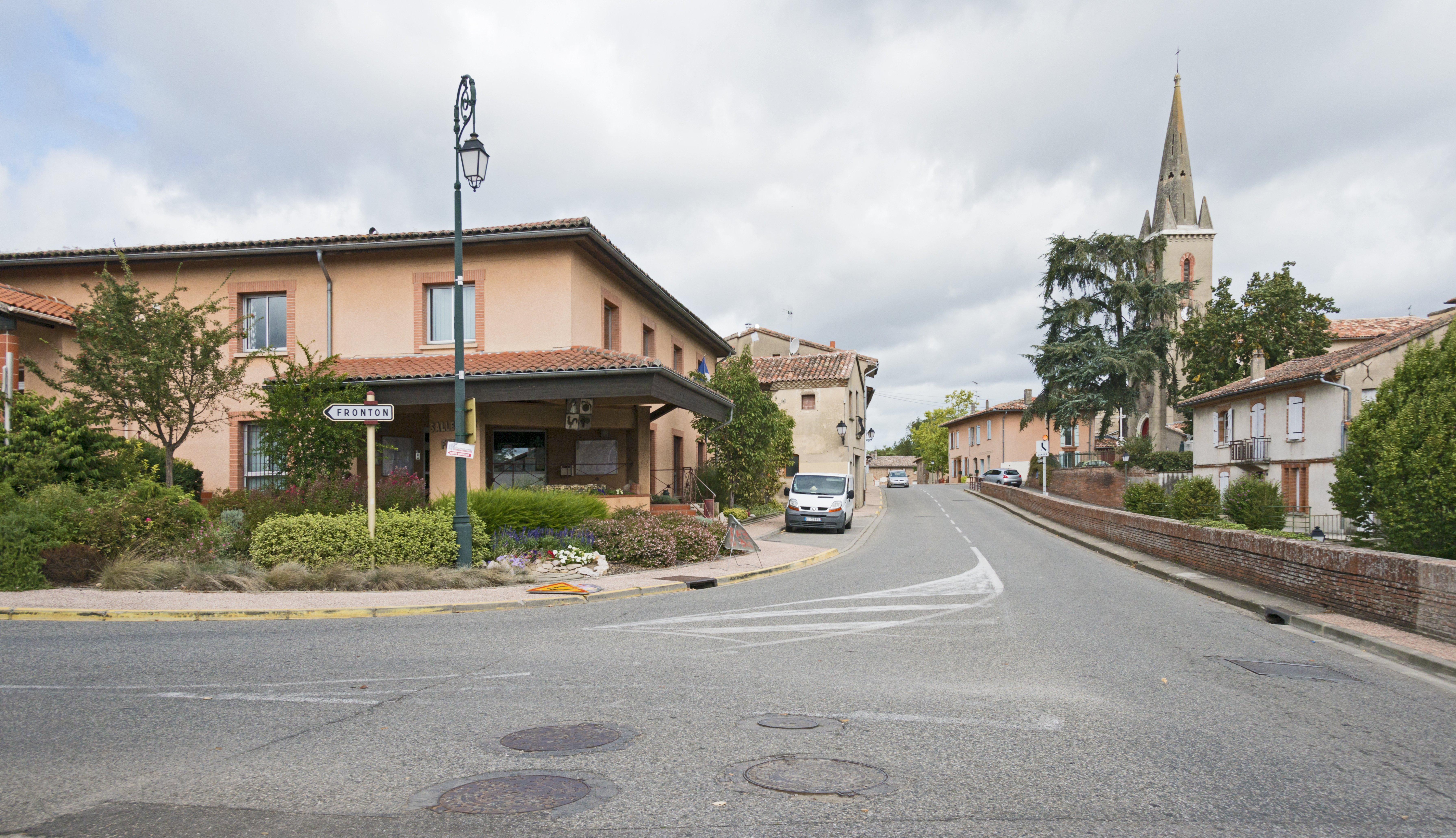 Villaudric.